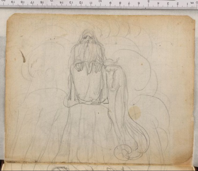 Blake manuscript - Notebook - page 110 reversed